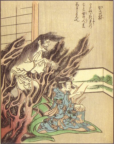 Kasane (累) from the Ehon Hyaku monogatari (絵本百物語)